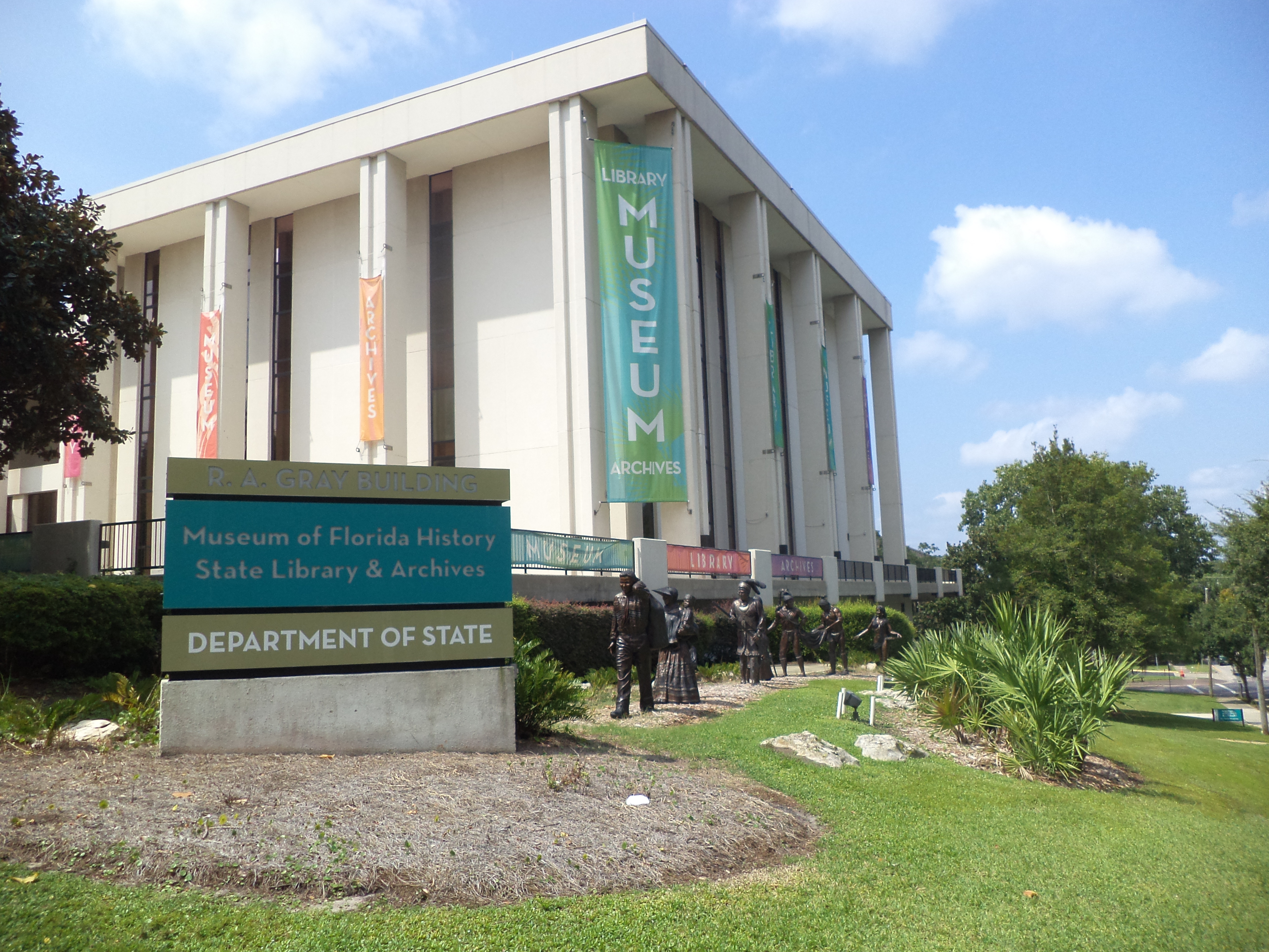 Museum of Florida History (sign), Tallahassee, Leon County, Florida